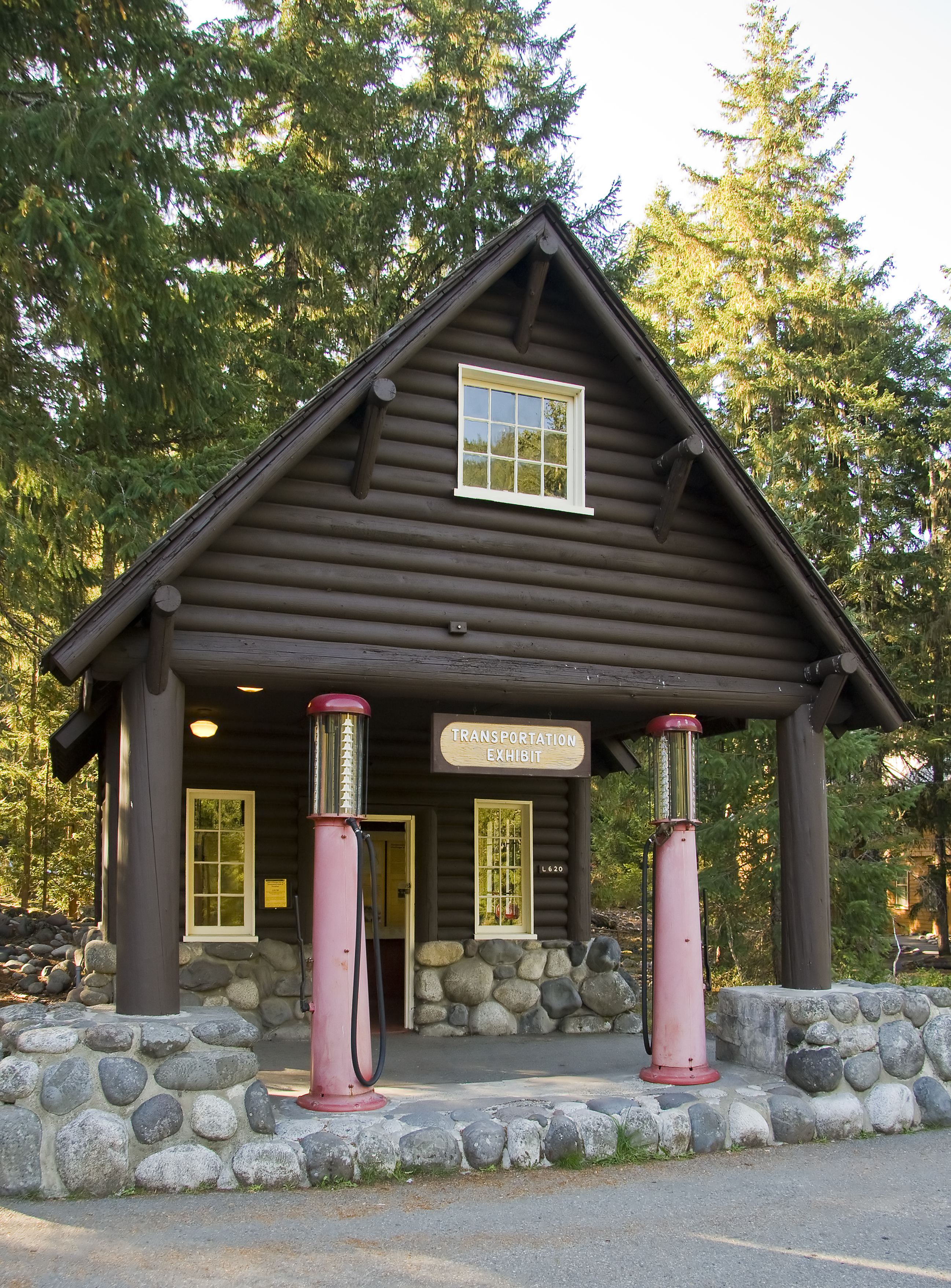 Longmire Service Station, part of a National Historic Landmark in Mount Rainier National Park, Washington, USA. Both the Longmire Buildings and Longmire Historic District are listed on the National Register of Historic Places.